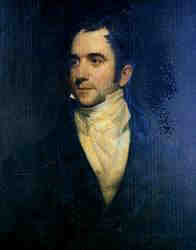 Manuel Agustín Heredia Martínez (1786-1846).